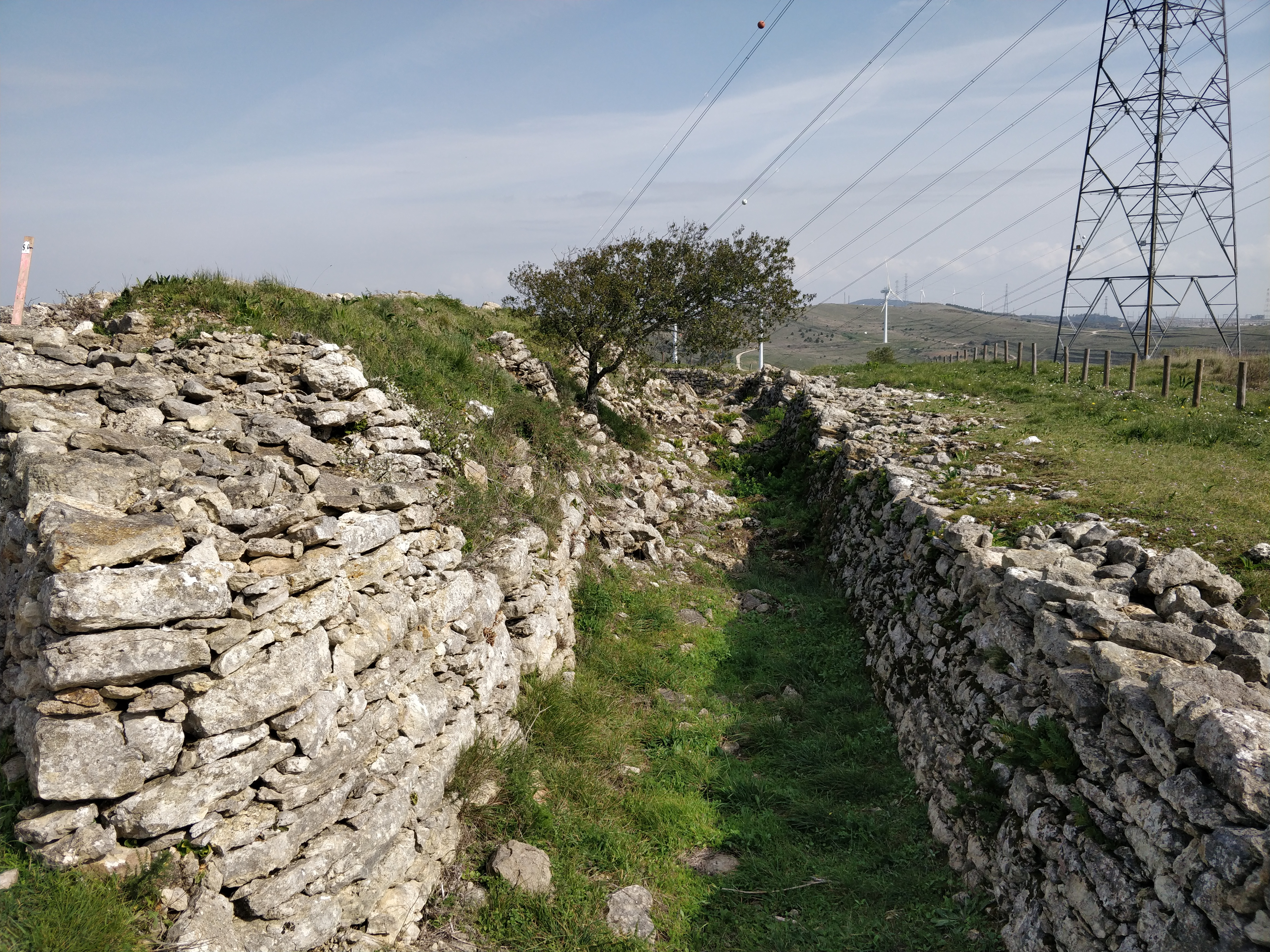 View of the Fort of Ribas, one of the forts in the Lines of Torres Vedras, northwest of Lisbon, Portugal